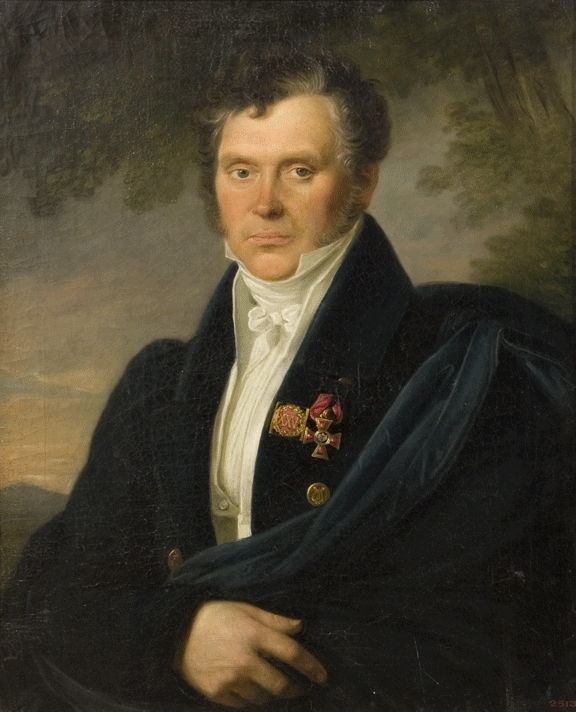 The self-portrait of sculptor Stepan Stepanovich Pimenov (1784-1833)